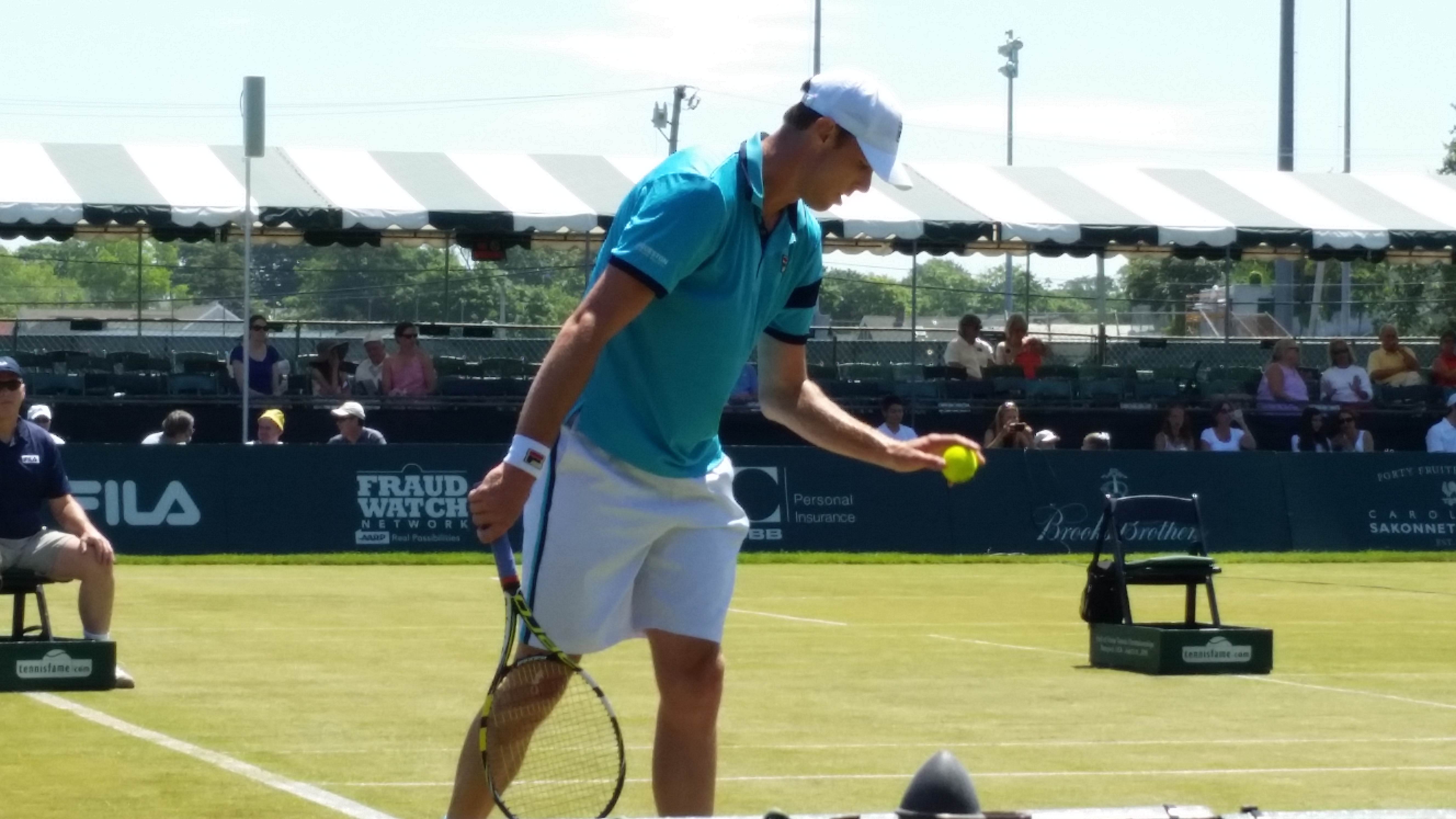 Sam Querrey at 2015 Hall of Fame Tennis Championships in Newport, Rhode Island.